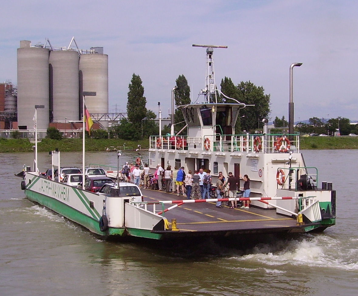 view of Altrip, Germany